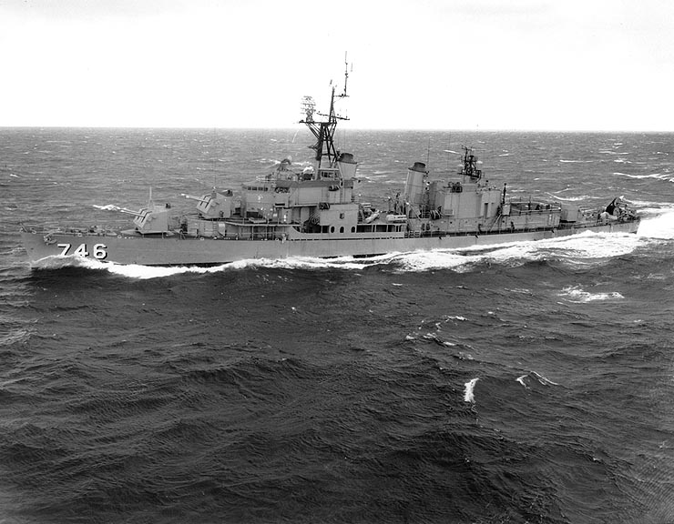 Photo #: NH 98946 - USS Taussig (DD-746) - Underway at sea, 13 January 1965.